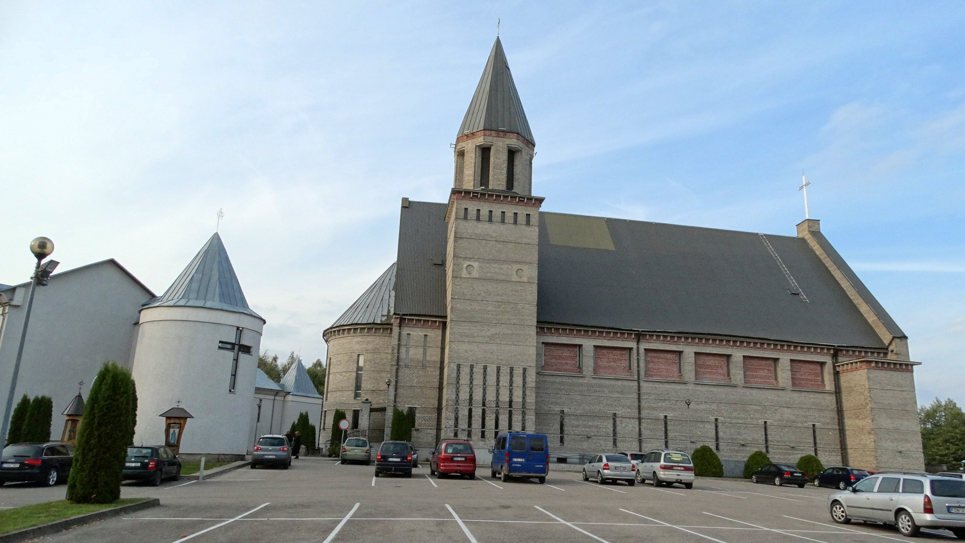 St. Mary Help of Christian Church, Alytus, Lithuania